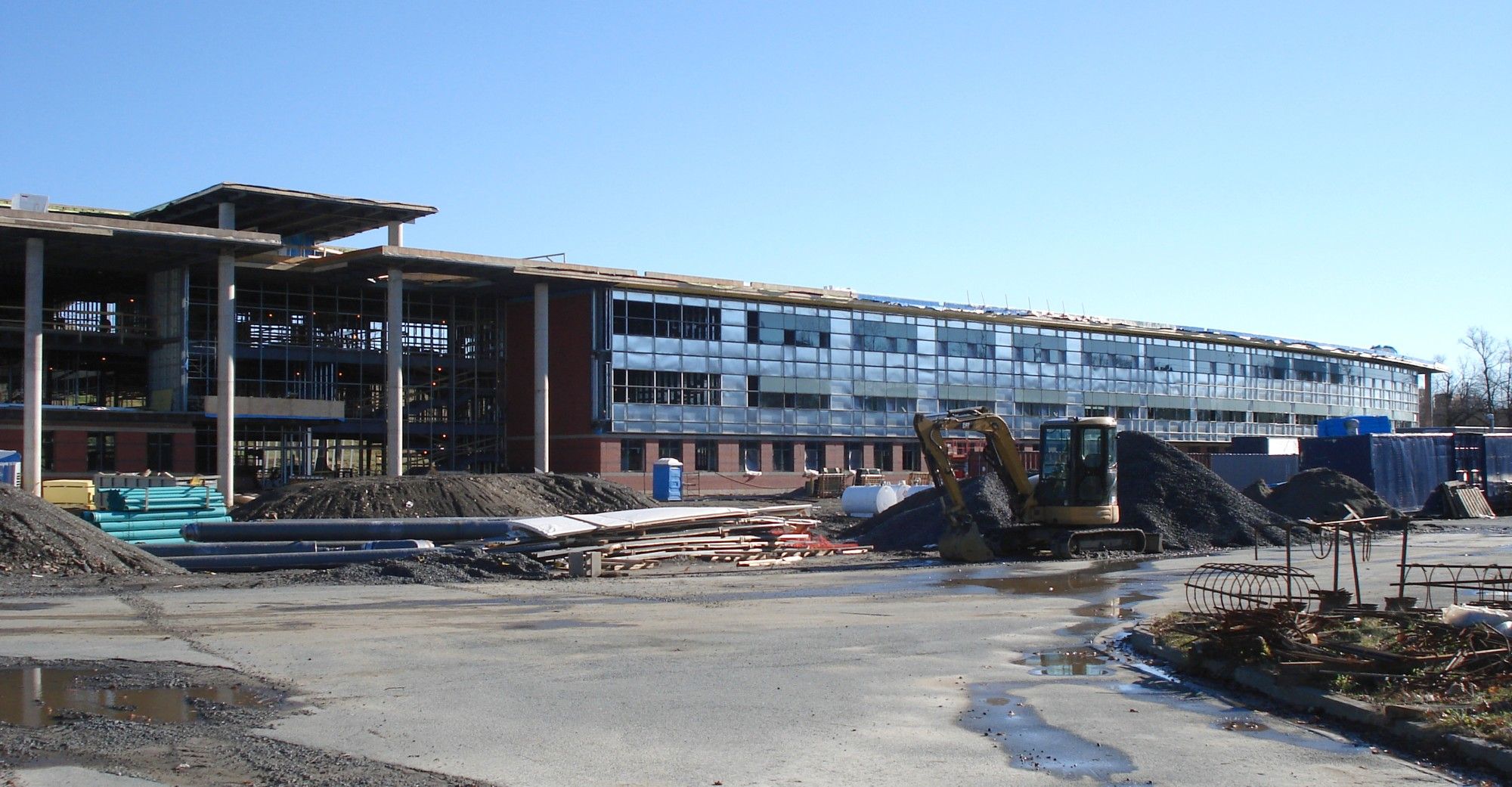 Citadel High construction site, December 2, 2006. Picture taken by Bryson109|(myself), December 2, 2006.